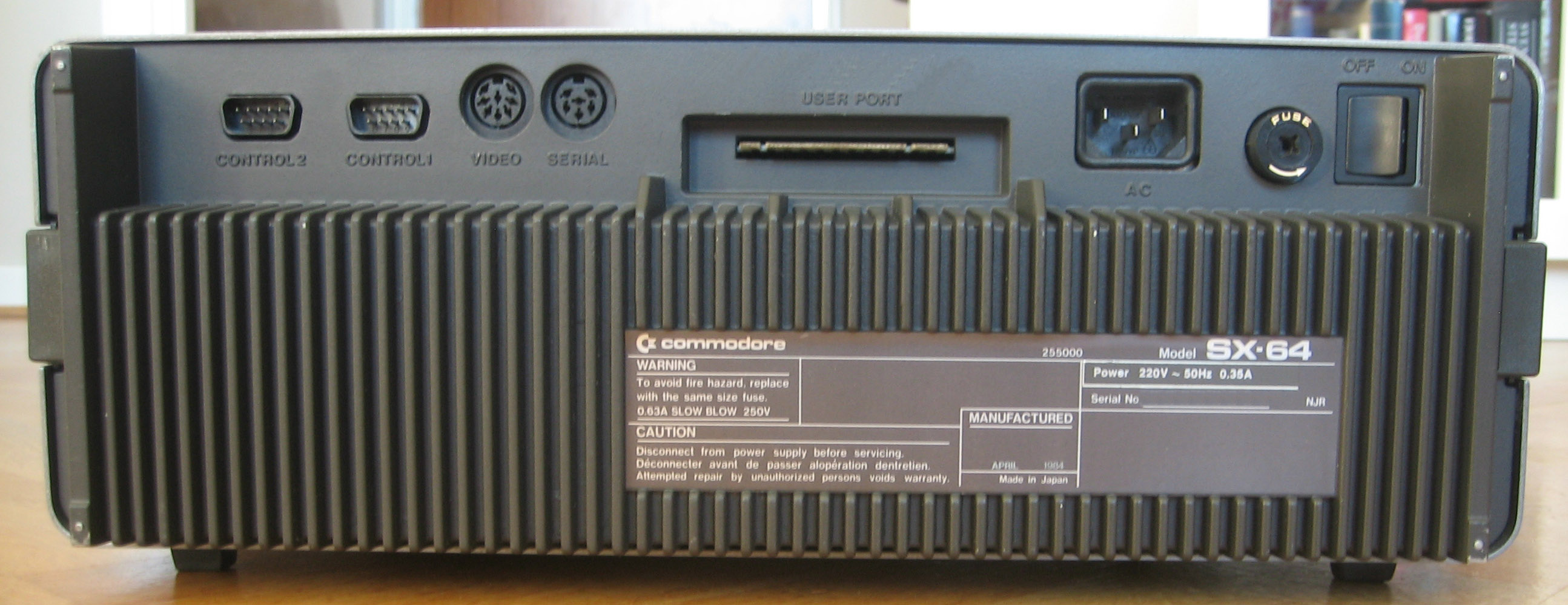 Commodore SX-64, back with connectors. The picture has been modified: Serial number has been erased. Feel free to modify the picture to add a white/transparent background, or otherwise enhance the picture.